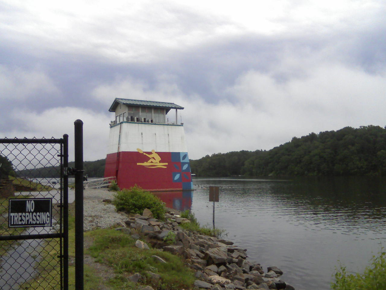 Location of the finish tower used for the canoe sprint and rowing events at Lake Lanier in Georgia for the 1996 Summer Olympics held in neighboring Atlanta.